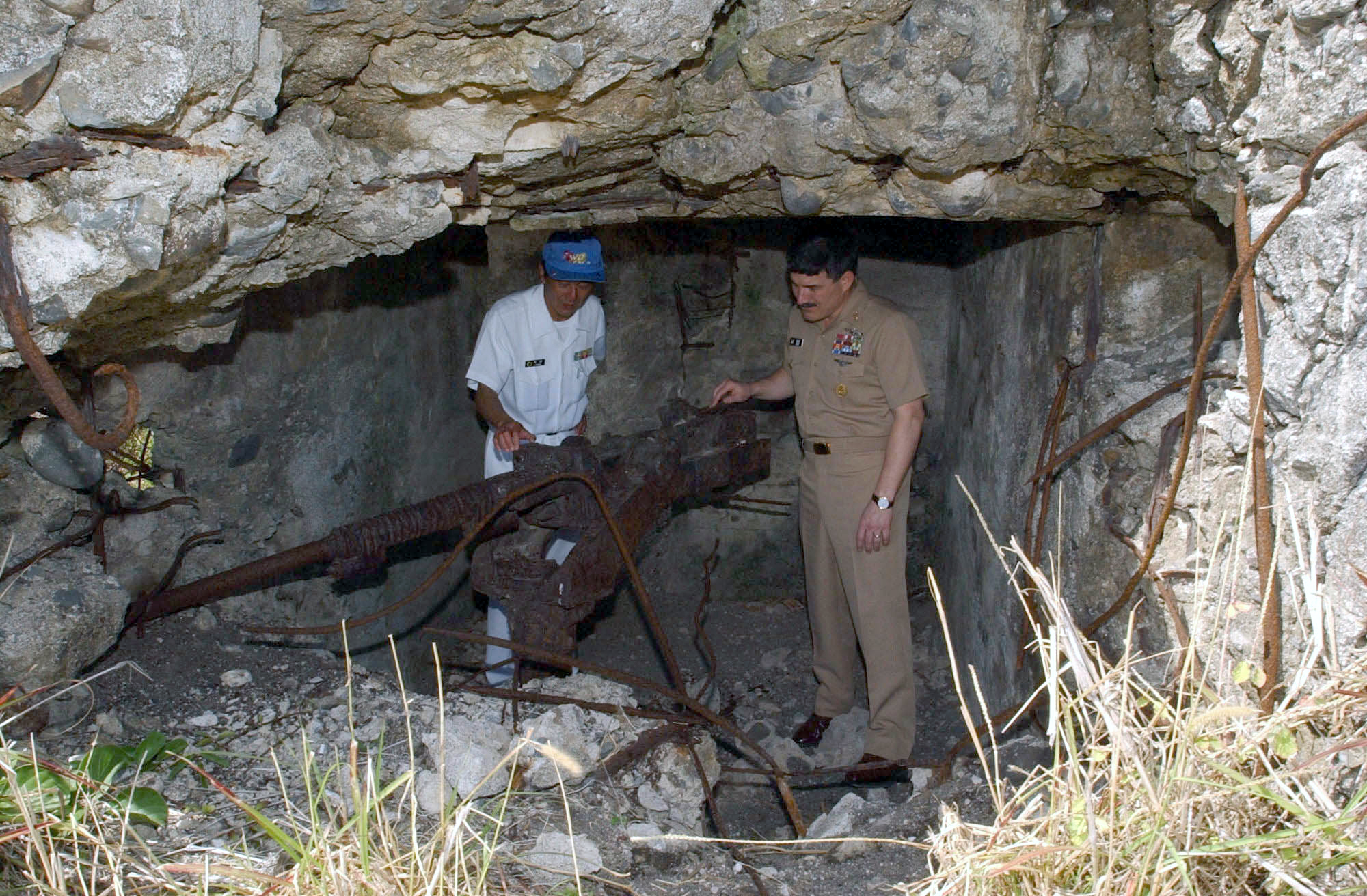 Iwo Jima, Japan (Mar. 23, 2003) -- Master Chief Petty Officer of the Navy Terry D. Scott inspects an old Japanese machine gun nest that still faces the beachhead where U.S. Marines landed during the Battle of Iwo Jima. U.S. Navy photo by Photographer's Mate Second Class Michael A. Damron. (RELEASED)